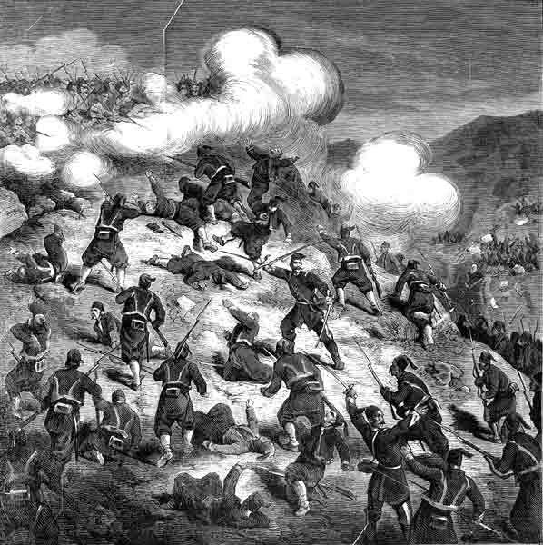 «Shipka Seat», 1877. Protection of the Shipka Pass. Repulse of the Turkish Attack on Mount St. Nicholas. September 5, 1877. Engraving in 1877 by K. Kryzhanovskiy Drawing by A. Baldinger. An Illustrated Chronicle of the War. V. 1. - St.Petersburg: Hermann Hoppe Publishing, 1877